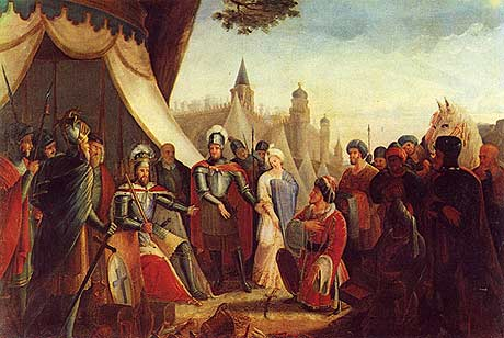 The Siege of Lisbon by D. Afonso Henriques (1840), Oil on Canvas (1070 x 800 mm) by Joaquim Rodrigues Braga (1793-1853)